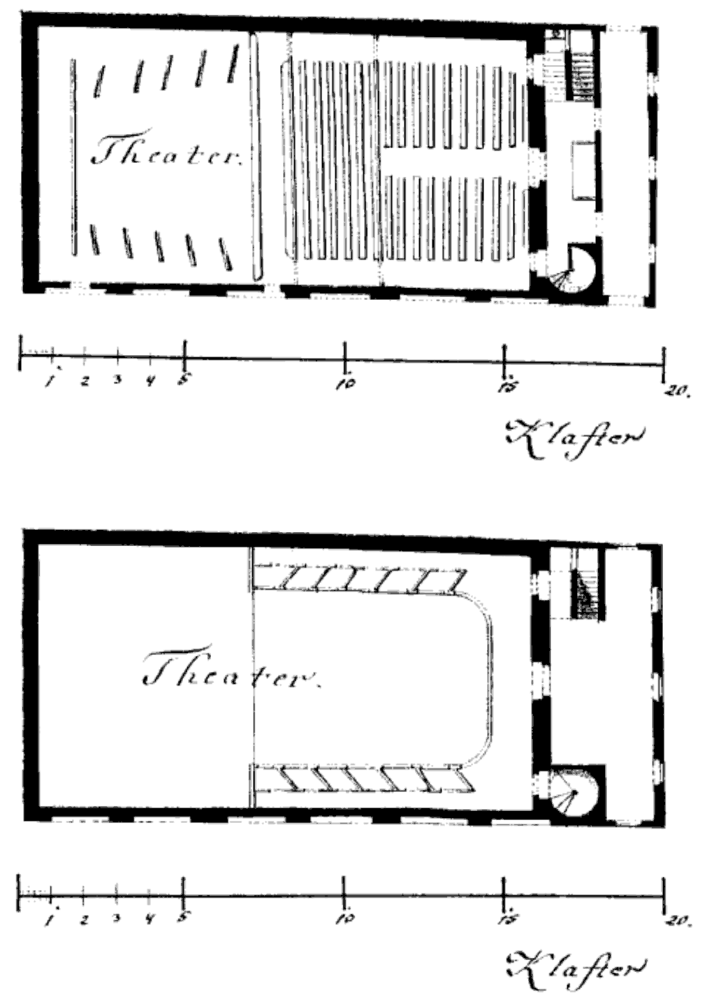 Floor plans for the lower and upper levels of the Theater auf der Wieden, site of the premiere of Mozart's opera "The Magic Flute." A "Klafter", shown in the scale, is a unit of measure approx. 1.9 meters. From the State Archives of Lower Austria in St. Poelten.